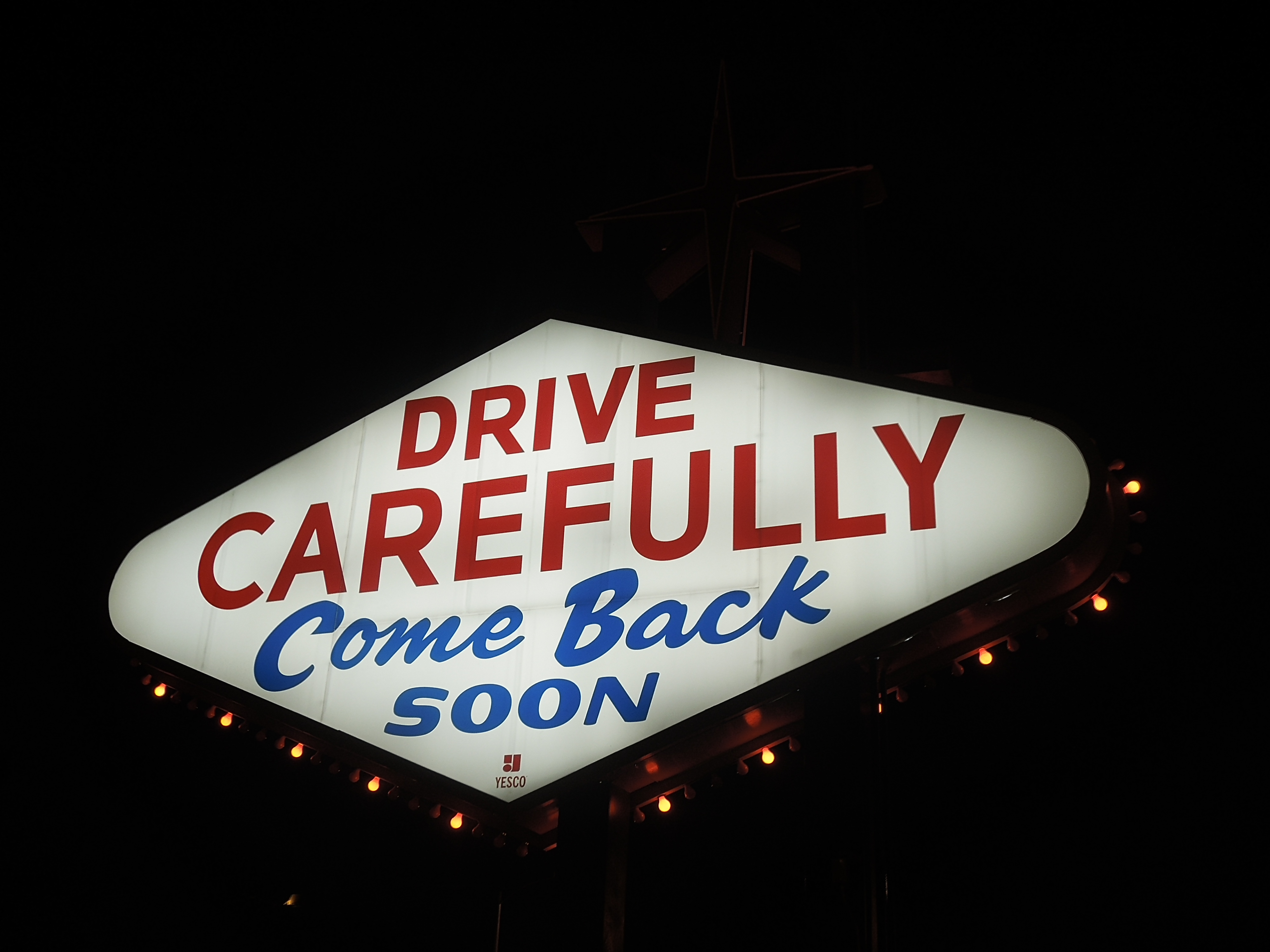 The other side of the Las Vegas Sign, at night, in Las Vegas, Nevada.